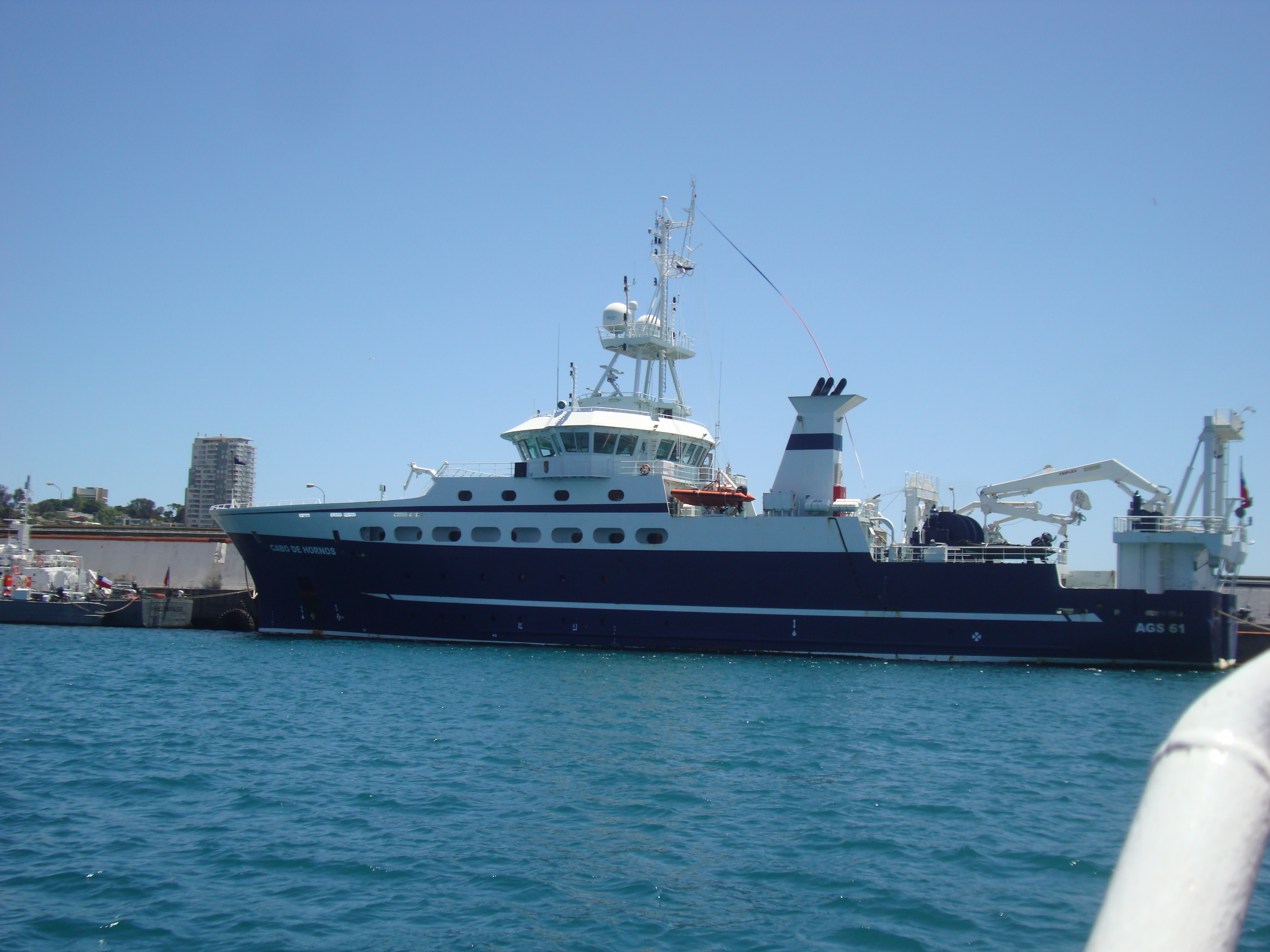 Oceanographic ship of the Chilean Navy